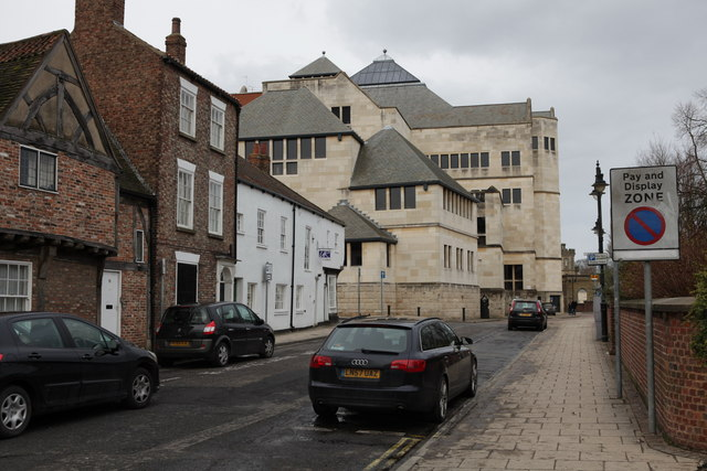 North Street looking towards Lendal Bridge